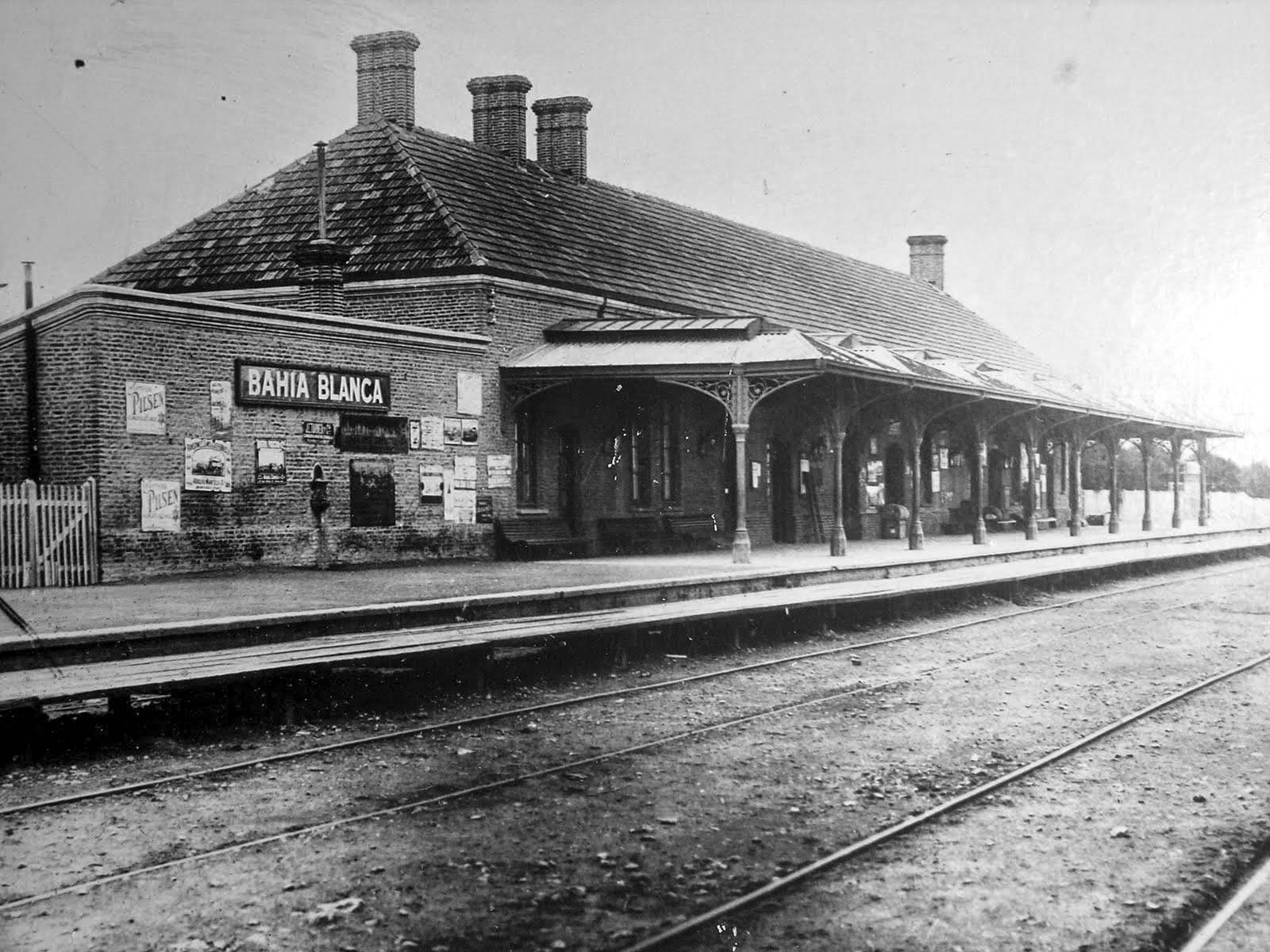 The first Bahía Blanca station built by the FC del Sud. It would later be demolished to build a new and much bigger station.